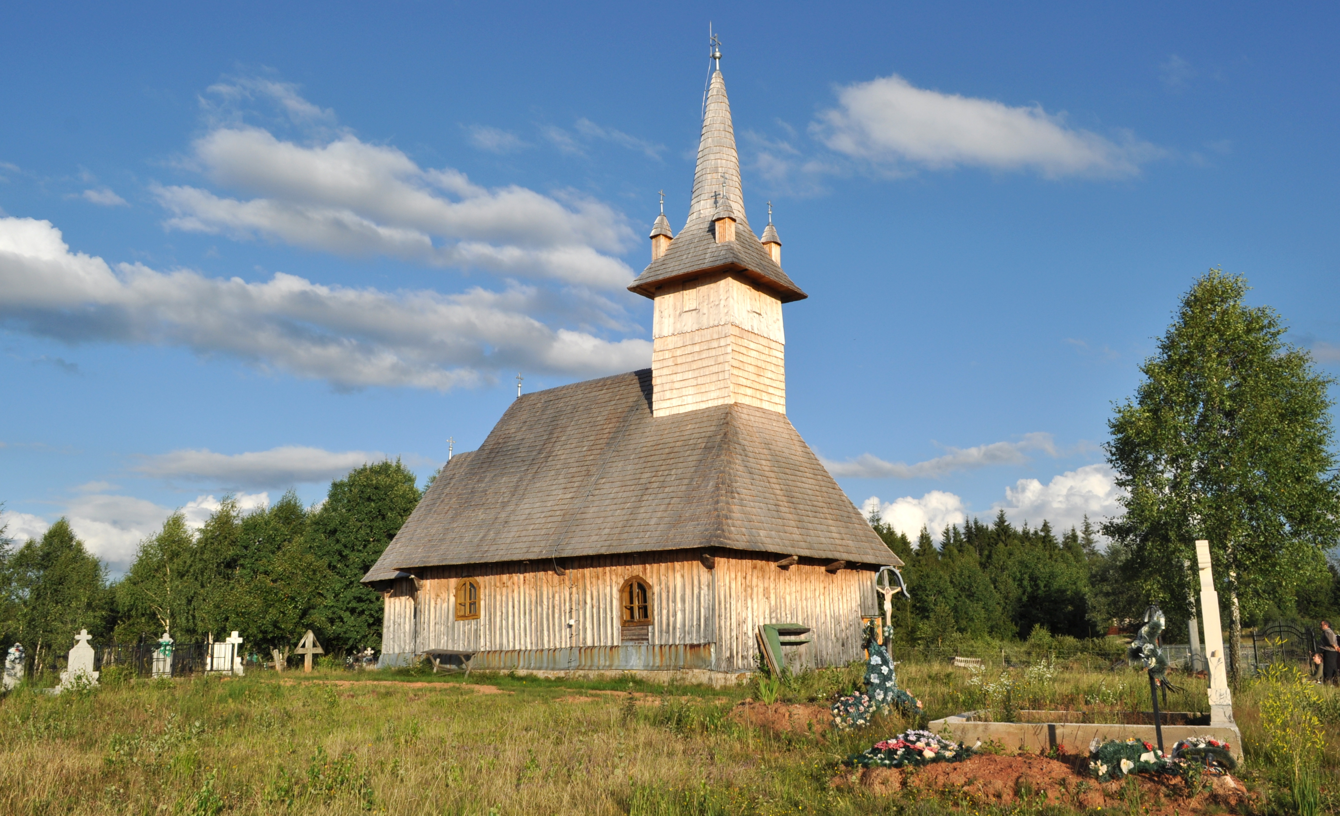 Wooden church in Dealu Negru, Cluj countyRomână: Biserica de lemn din Dealu Negru, județul Cluj